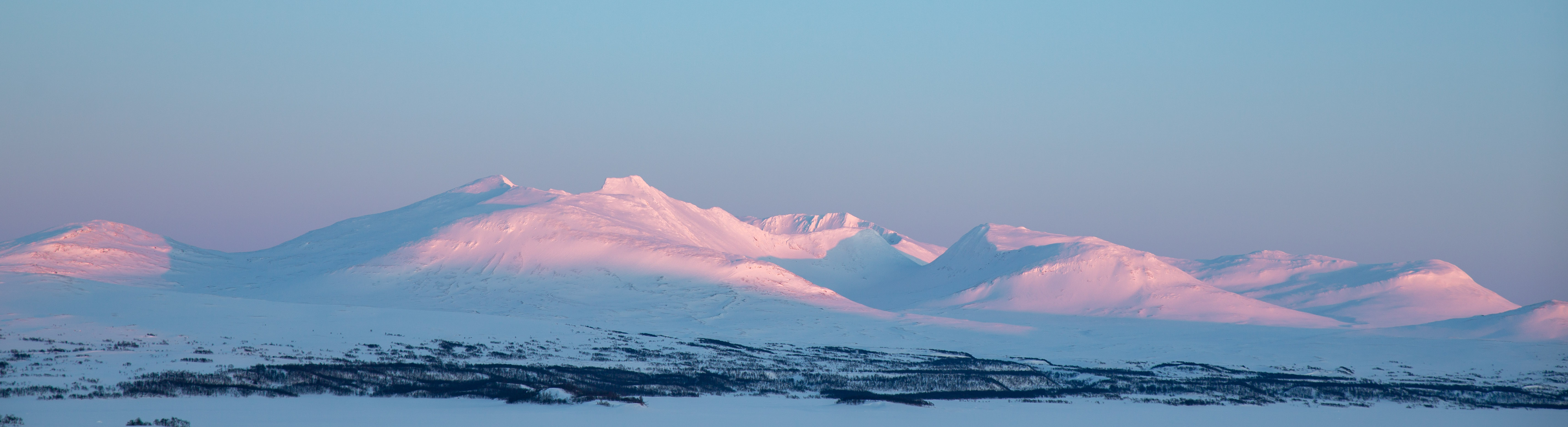 Sylmassivet in Sylan as seen from Storerikvollen hut in winter in the evening